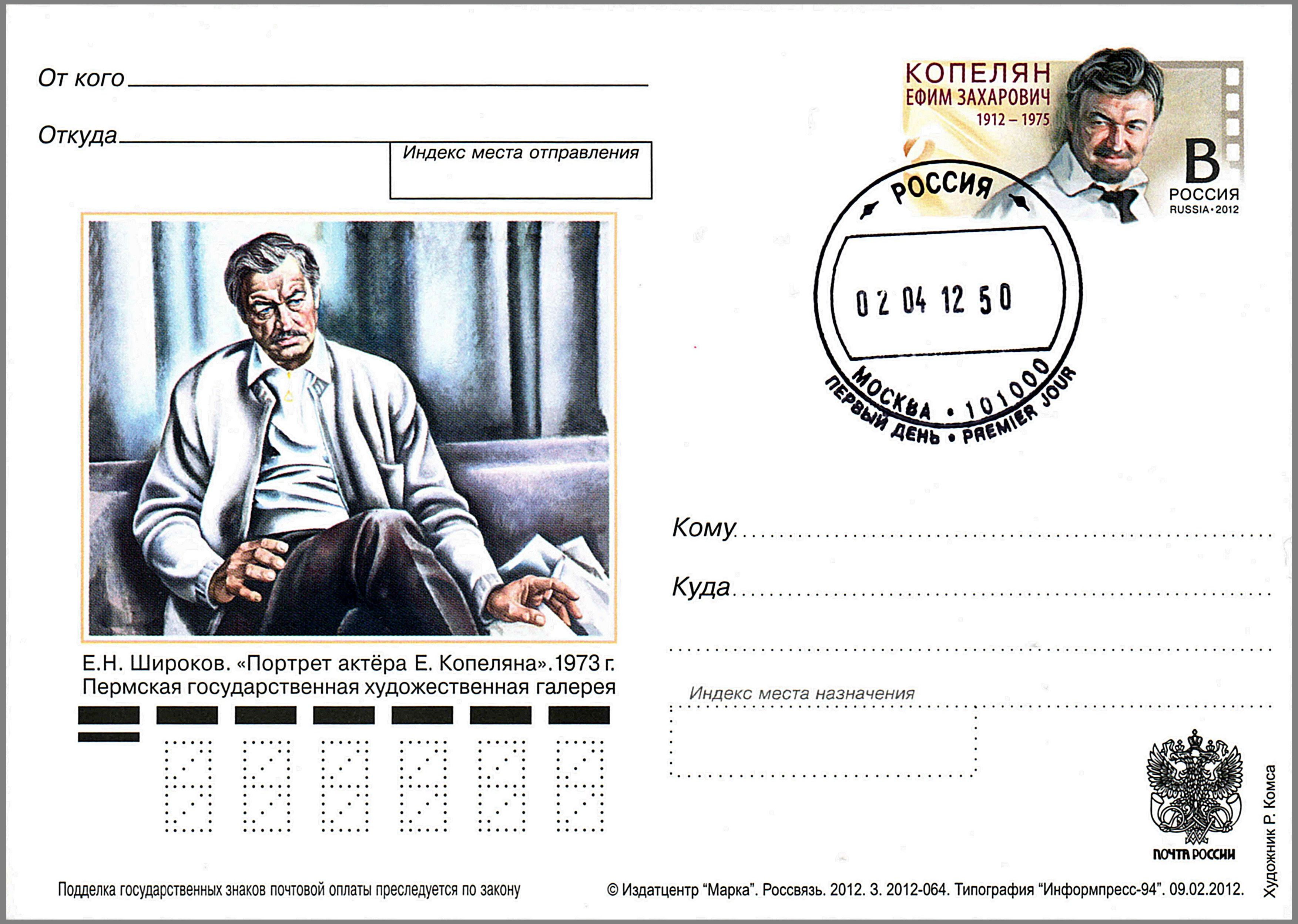 100th birth anniversary of the Soviet cinema and theater actor Yefim Kopelyan (1912–1975). The postal stationery card with the imprinted commemorative stamp, Russia, 2 April 2012, PTC Marka Catalogue No 232/окр, Michel No PSo222. Coated paper. Offset printing. Size of the postal card: 105×148 mm. Print run: 12,000. The commemorative non-denominated stamp “Letter B” (for domestic postal cards): Yefim Kopelyan as Ataman Burnash (the film The Elusive Avengers (1966) and its sequels). The Portrait of the Actor Yefim Kopelyan by Yevgeny Shirokov. 1973. Perm State Art Gallery. The cancellation with the universal first day postmark, Moscow, 2 April 2012.